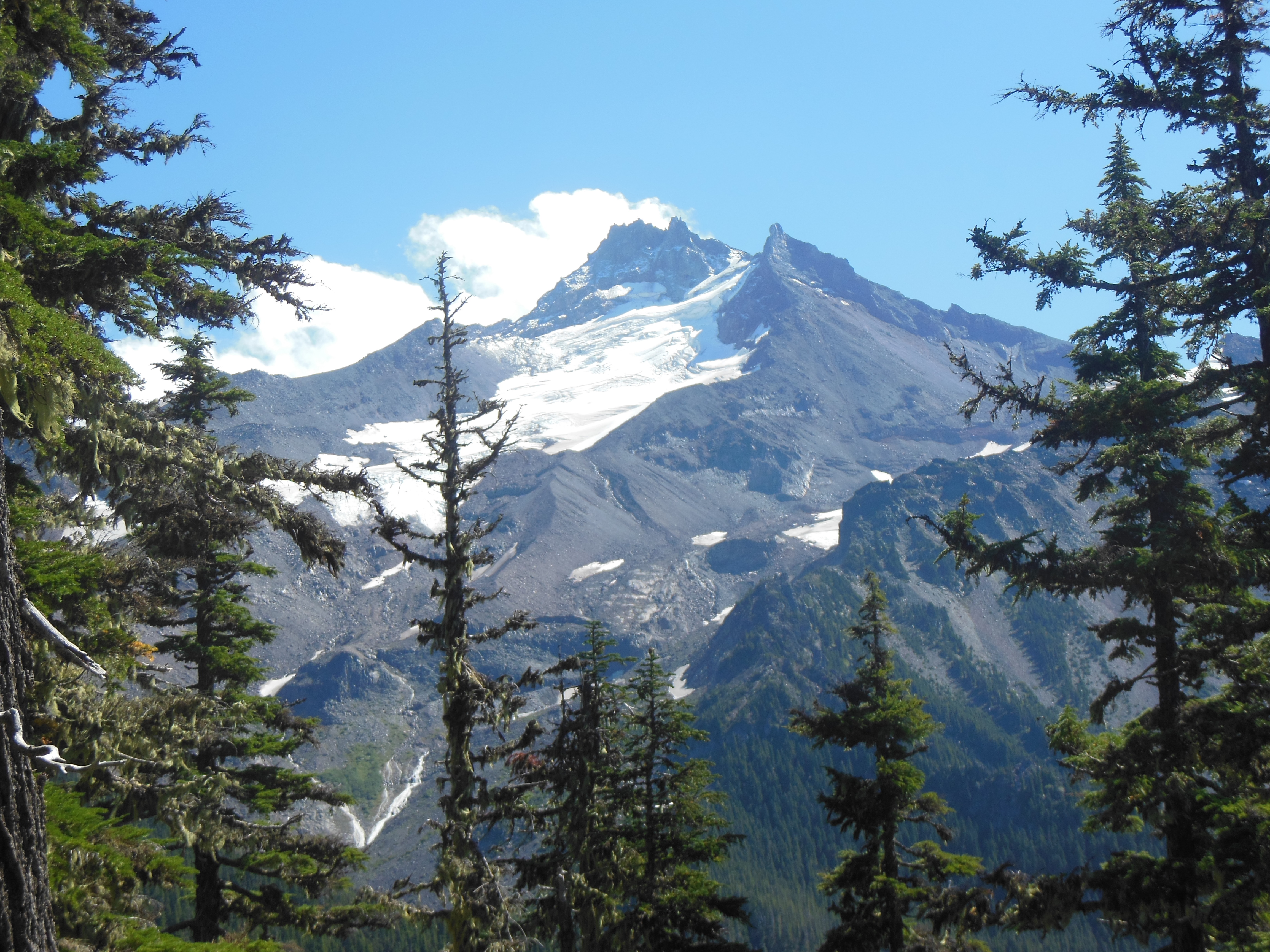 The Jefferson Park Glacier on Mount Jefferson's northwest side, seen from the Whitewater Trail in the Mount Jefferson Wilderness in Oregon, USA